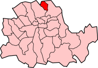 Map of the Metropolitan borough of Stoke Newington, former County of London.